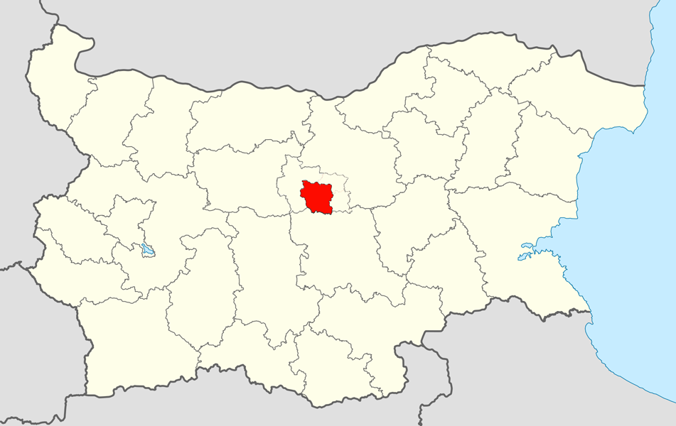 Location map of Gabrovo Municipality within Gabrovo Province, Bulgaria. Equirectangular projection, N/S stretching 130 %. Geographic limits of the map: N: 44.4° N S: 41.1° N W: 22.1° E E: 28.9° E